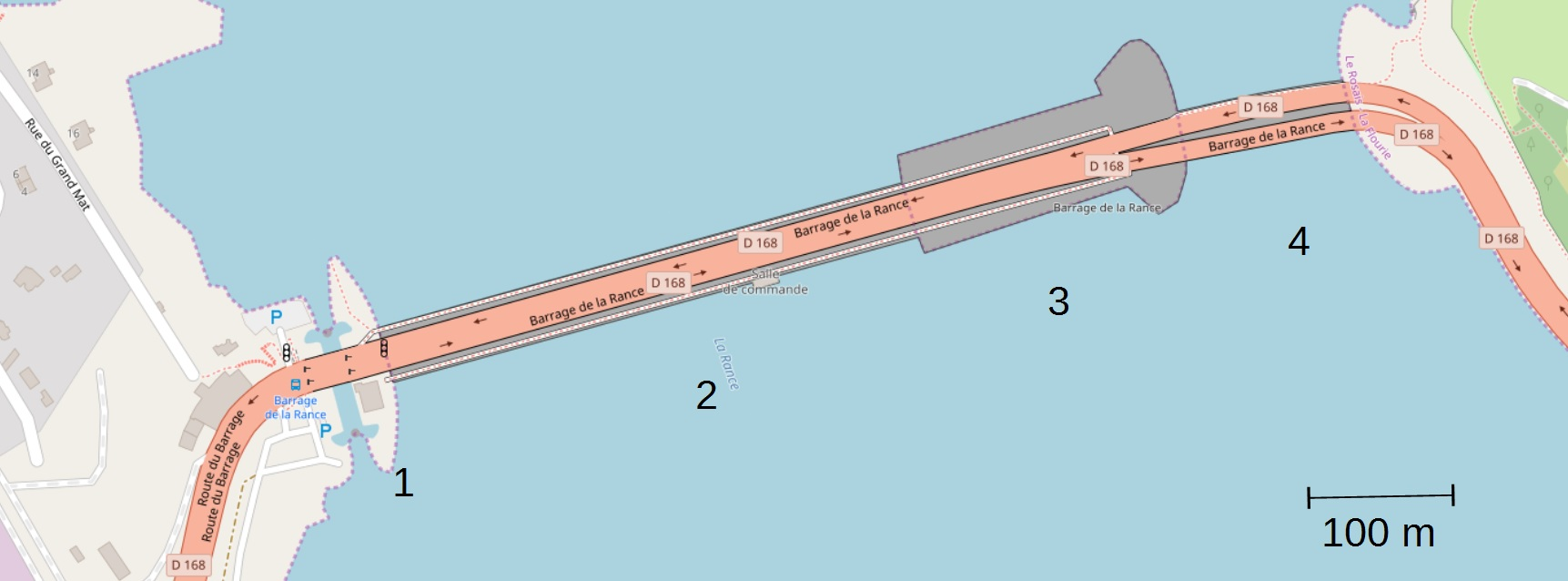 Dam of the tidal power plant on the estuary of the Rance River, Bretagne, France. OpenStreetMap